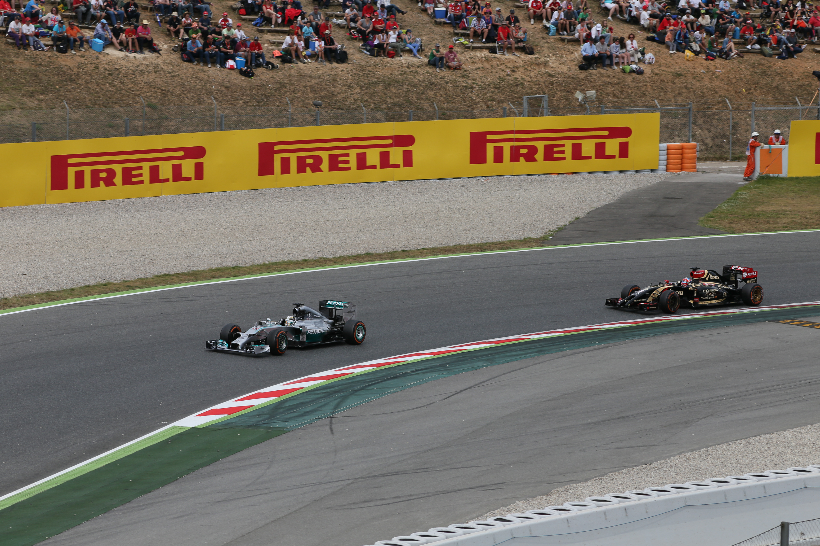 Lewis Hamilton and Romain Grosjean